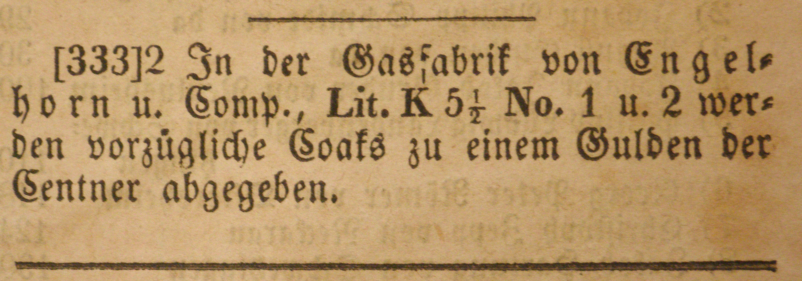 advertisement of the gasworks "Engelhorn u. Comp." in the newspaper "Mannheimer Journal", published 24 December 1848